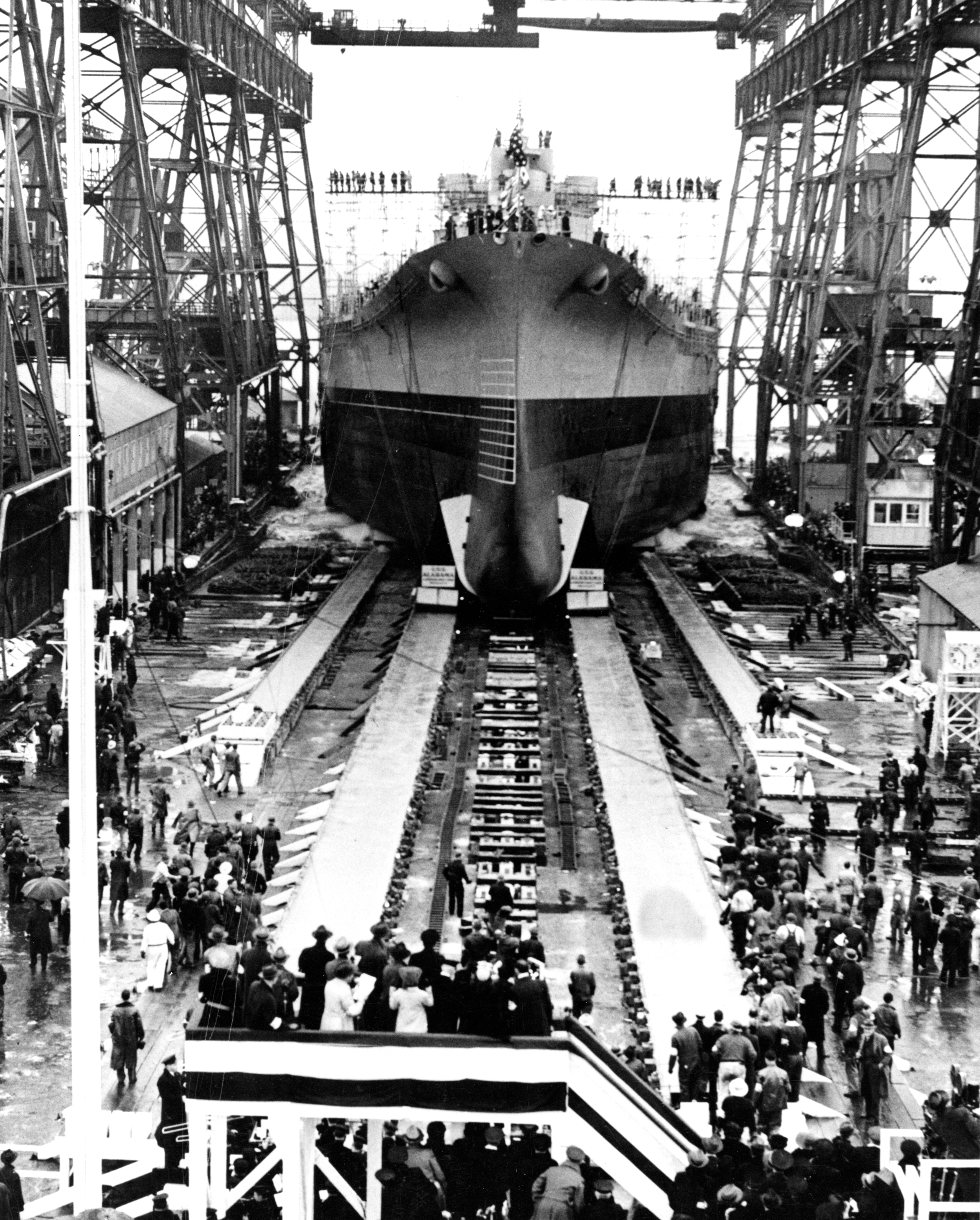 Launching, at the Norfolk Navy Yard, Portsmouth, Virginia, 16 February 1942. Courtesy of James Russell, 1972. U.S. Naval History and Heritage Command Photograph.